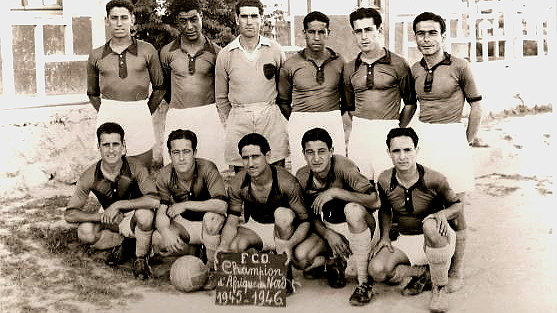 Picture of Football Club d'Oran, named actually Feth Carteaux d'Oran, team of soccer, winner of North African Champion's cup in 1946